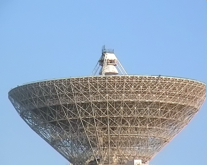 Mirror of RT-70 telescope